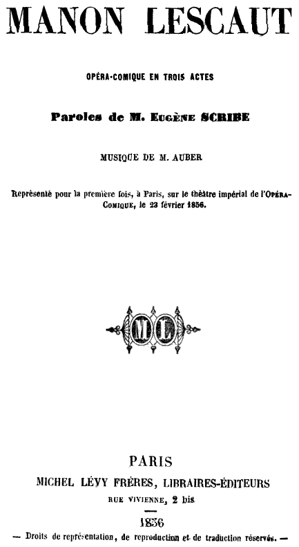 Daniel-François-Esprit Auber - Manon Lescaut - titlepage of the libretto, Paris 1856